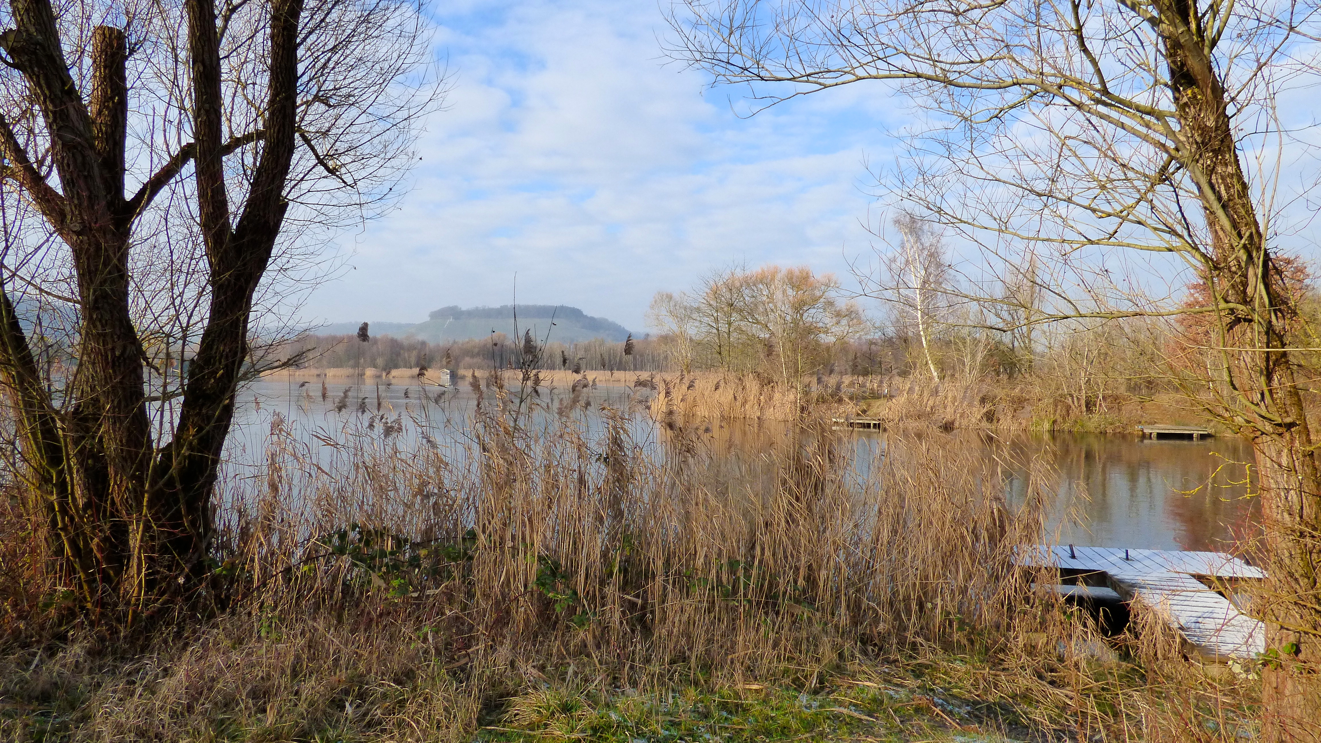 HAFF REIMECH on a cold day in January